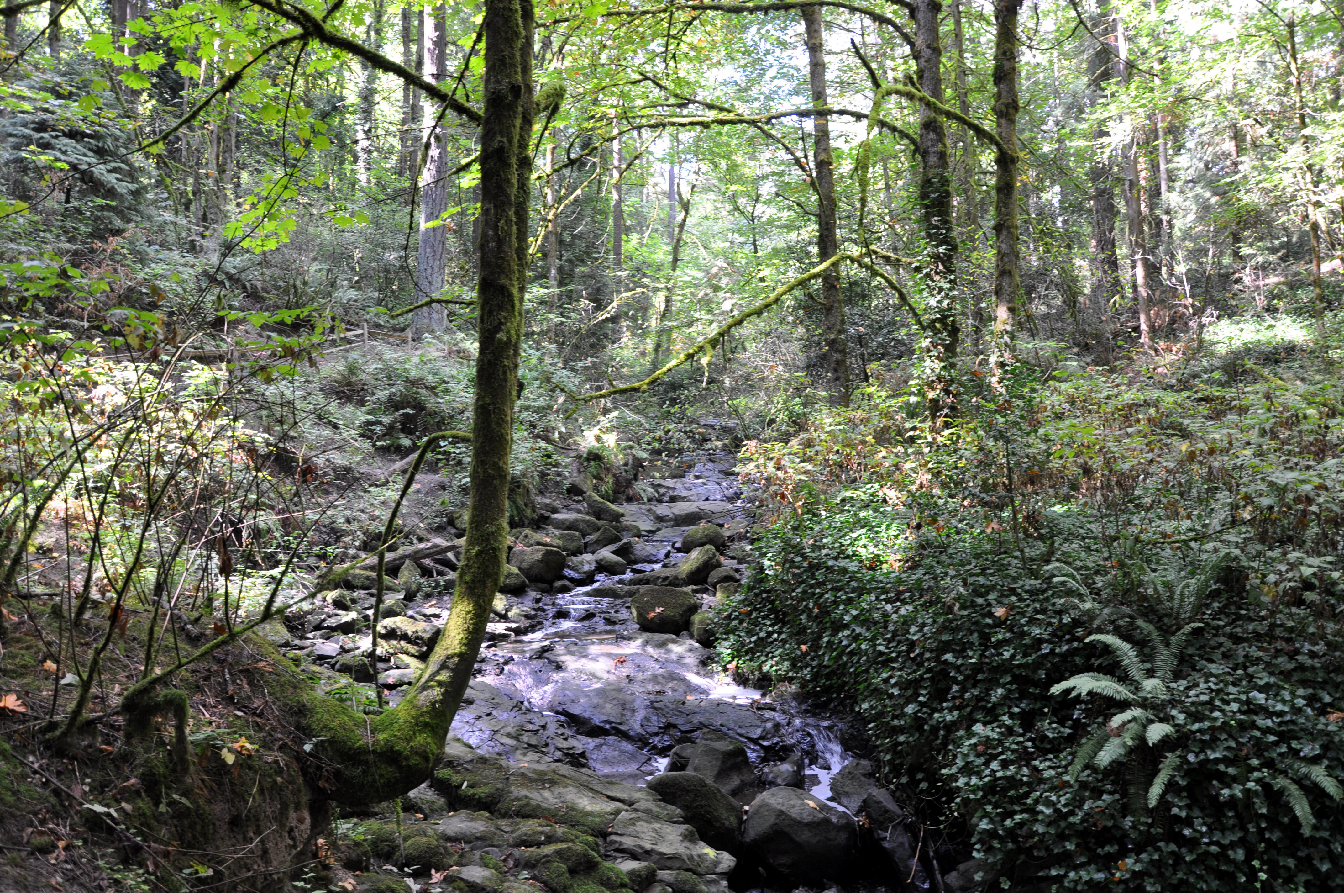 Tryon Creek runs through the forest in Marshall Park, in Portland in the U.S. state of Oregon. View is to the west.